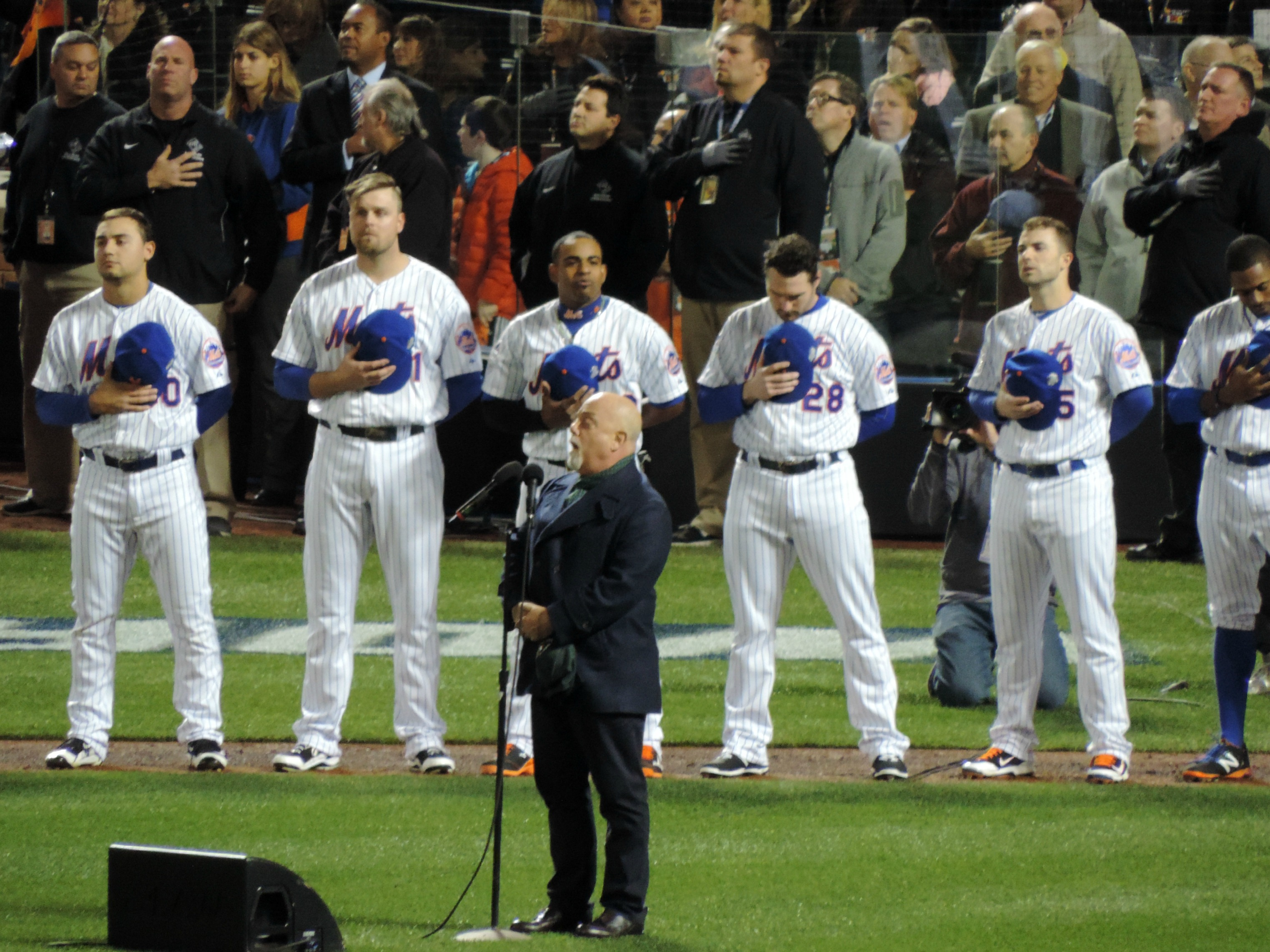 Billy Joel Singing the National Anthem Before Game 3 of the 2015 World Series